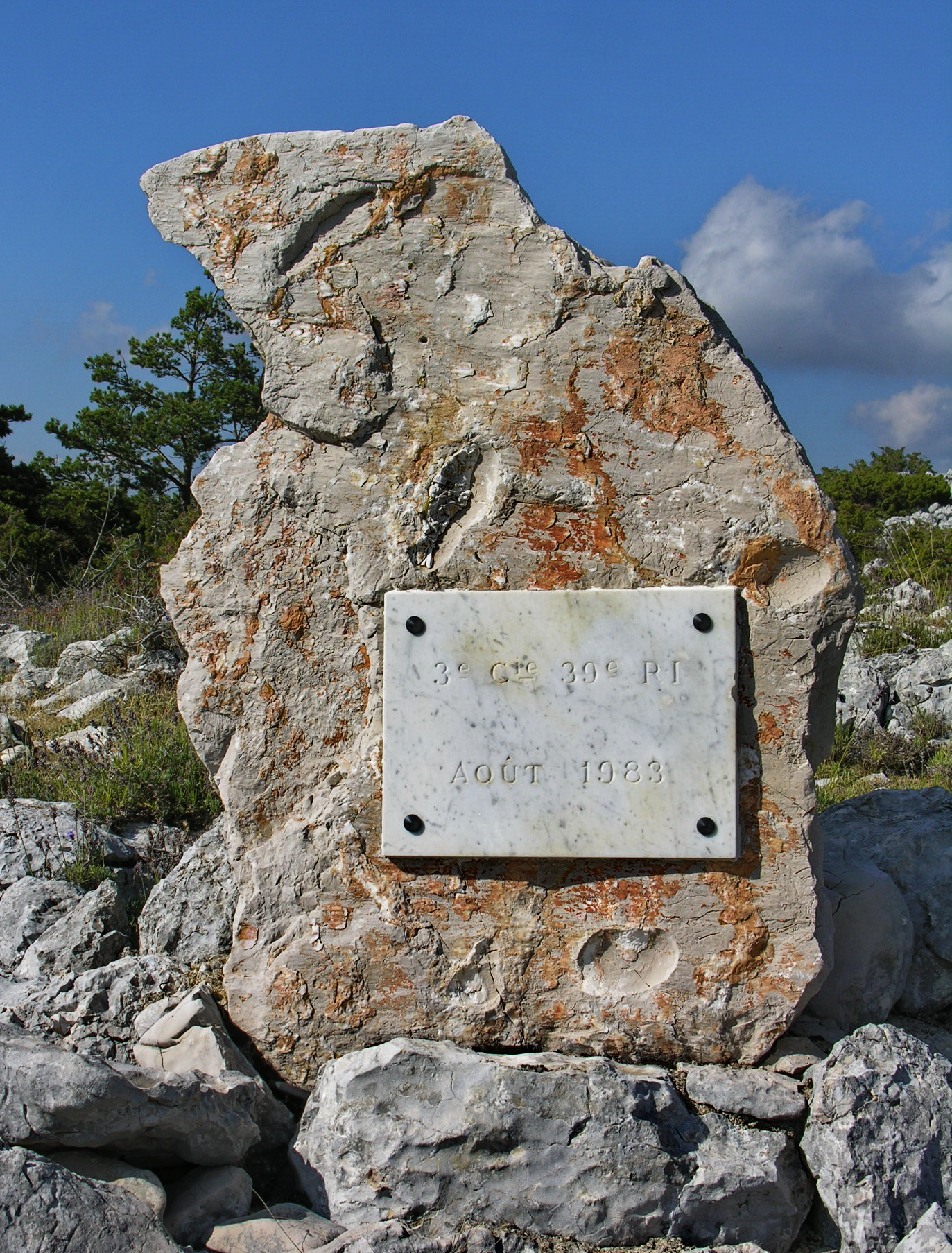 Canjuers Military camp : 3d Genie stele on Malaye monuntain